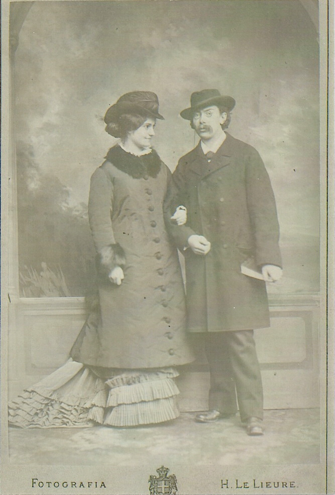 Emma and Victor Adler on their honeymoon in 1878. Photo credit: Fotografia H. Le Lieure. He had his studio in Italy; no location mentioned.